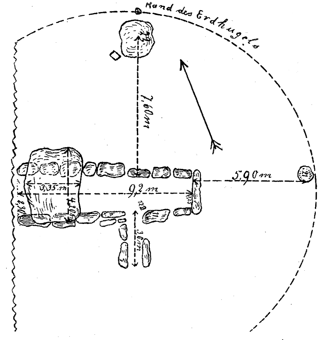 Plan of the Megalithic Tomb Drosa